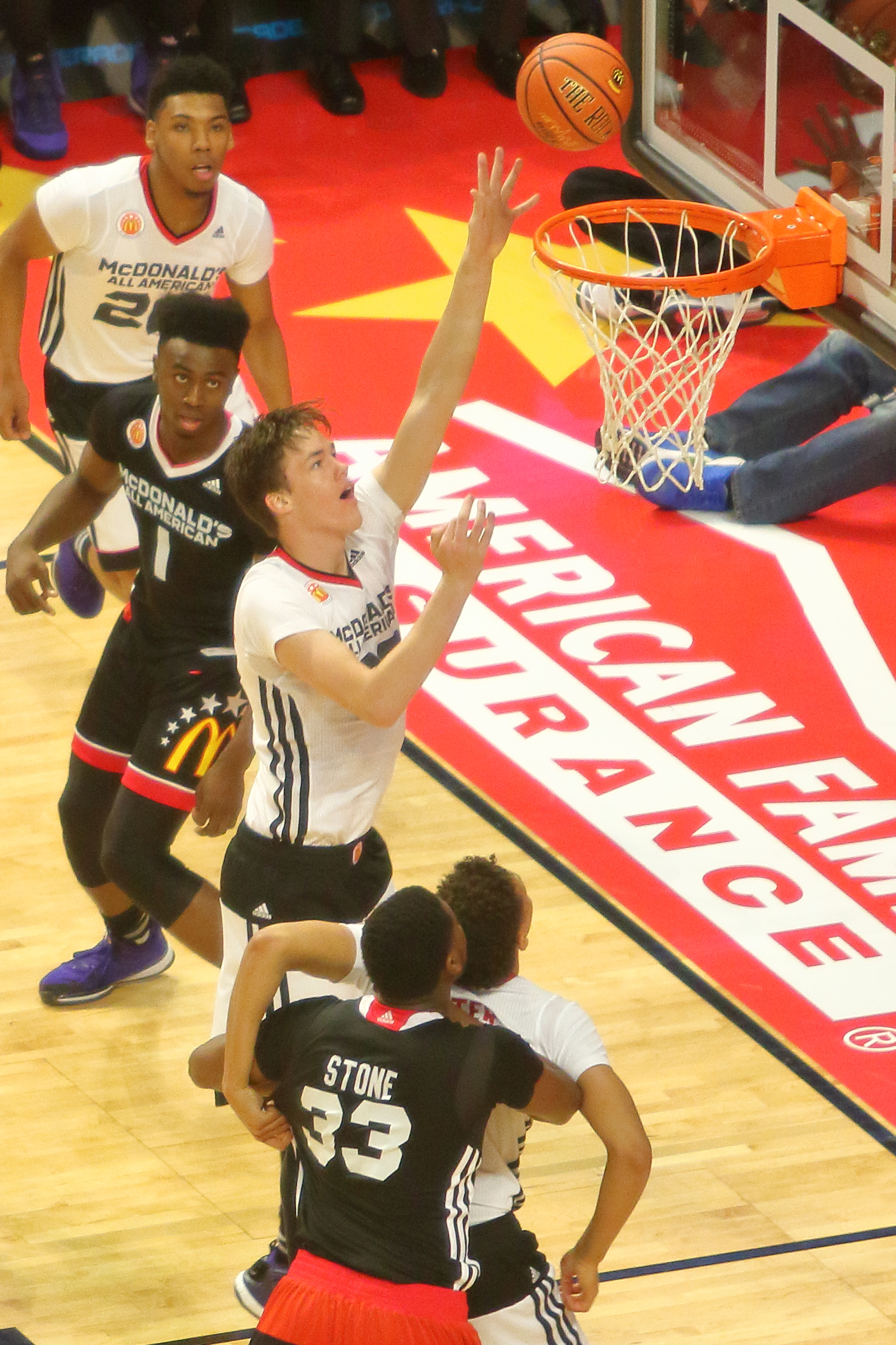 Stephen Zimmerman in front of Allonzo Trier (#25) and Jaylen Brown (#1) in the w:2015 McDonald's All-American Boys Game